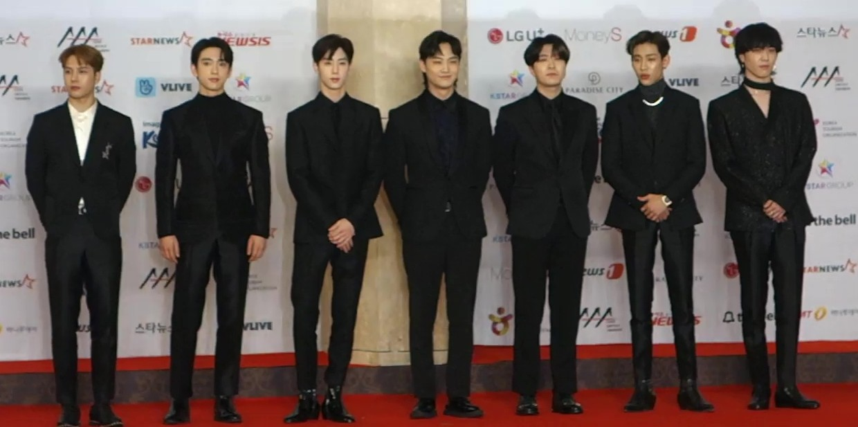 Got7 on the red carpet of 2018 Asia Artist Awards(AAA), 28 November 2018